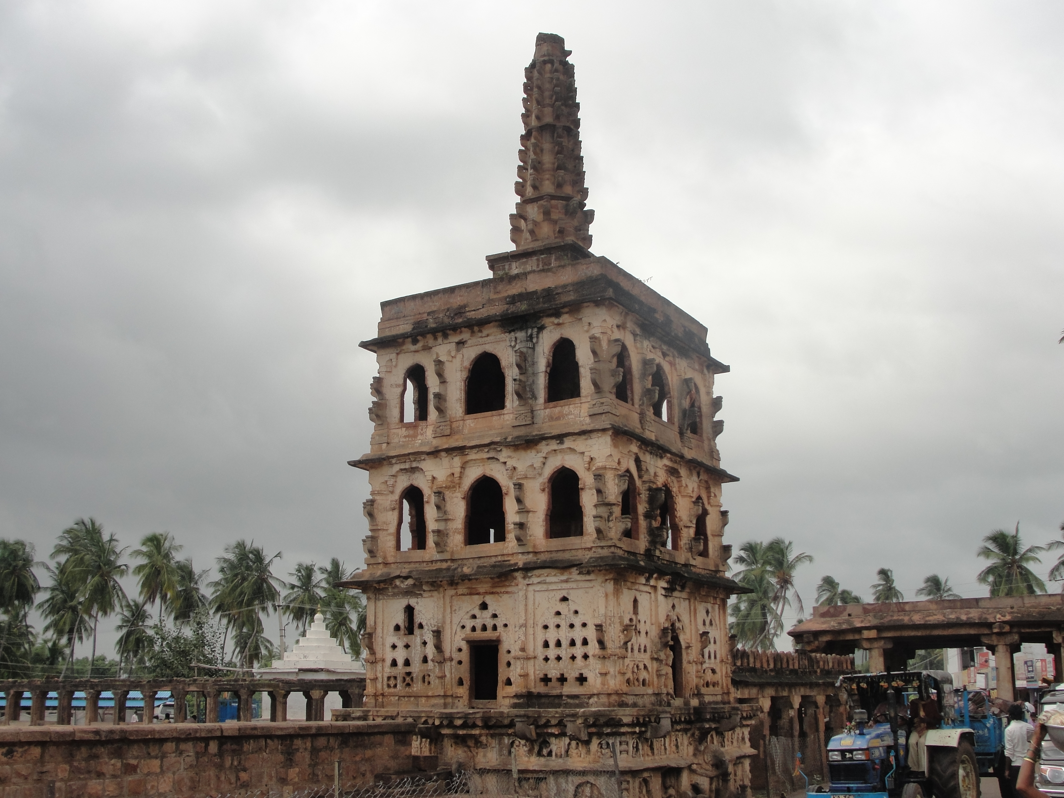 Pooja Light post, Banashakari, Karnataka, India